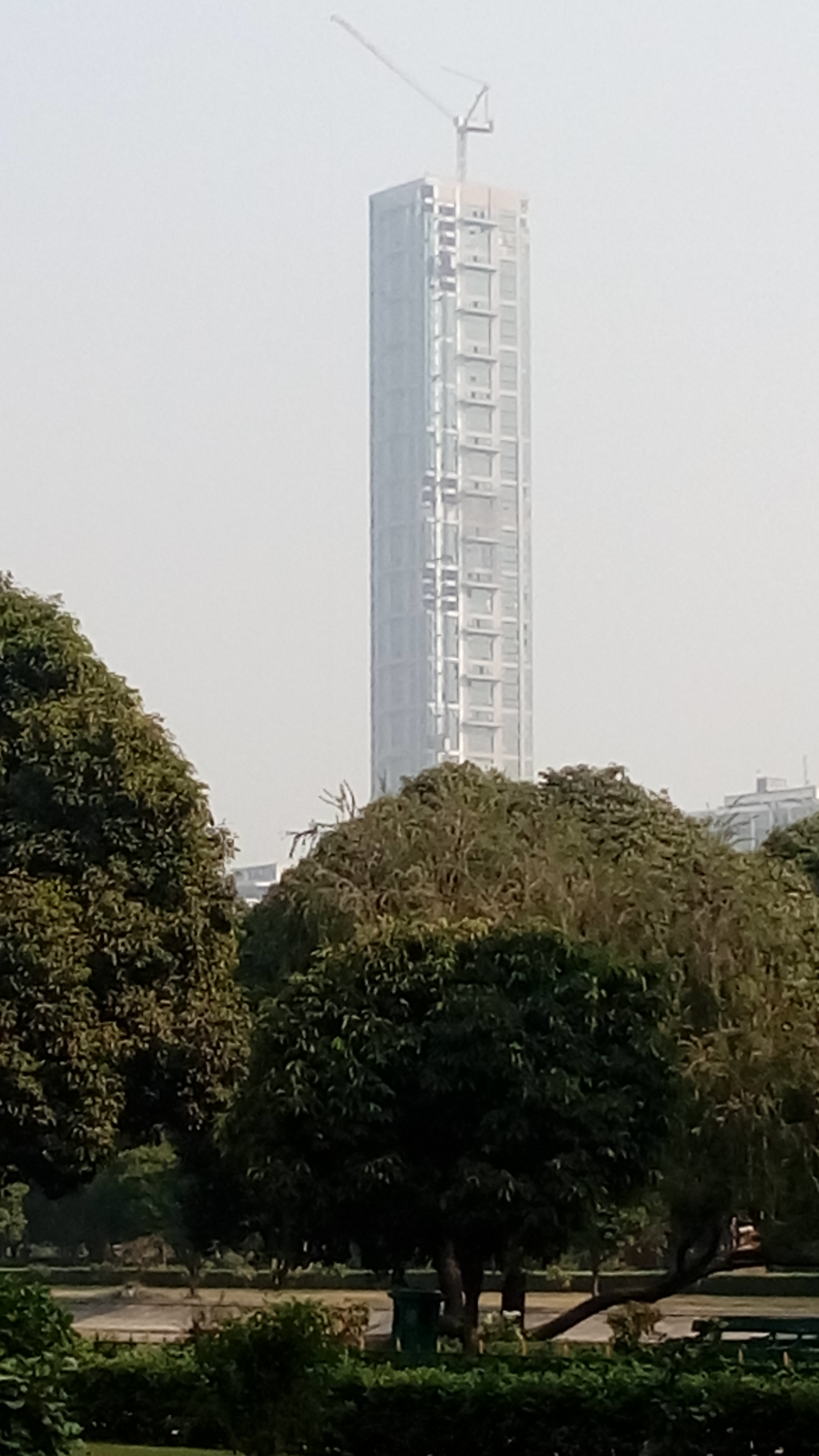 Kolkata the 42 resedential Building, one of the talest seen from Victoria Memorial